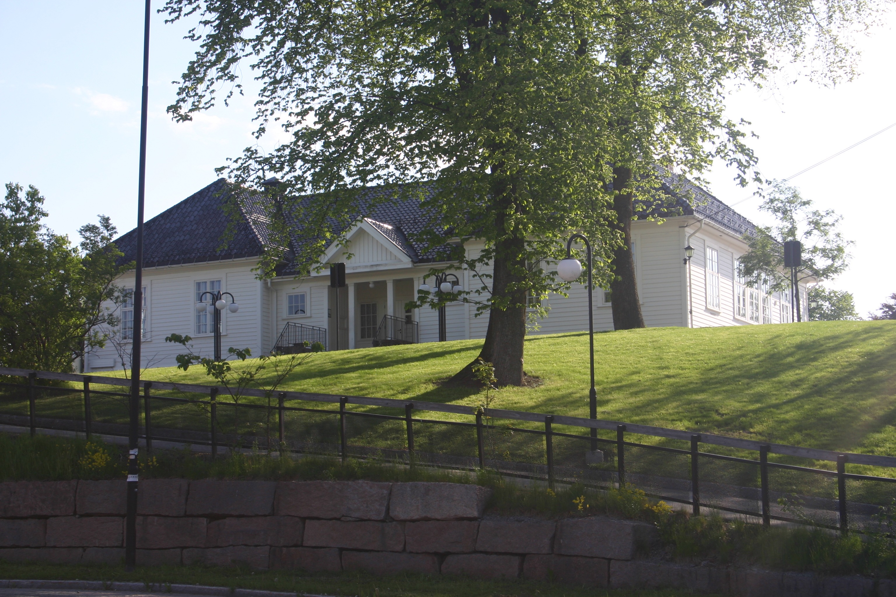 Venskapen Village Hall in Asker, Norway